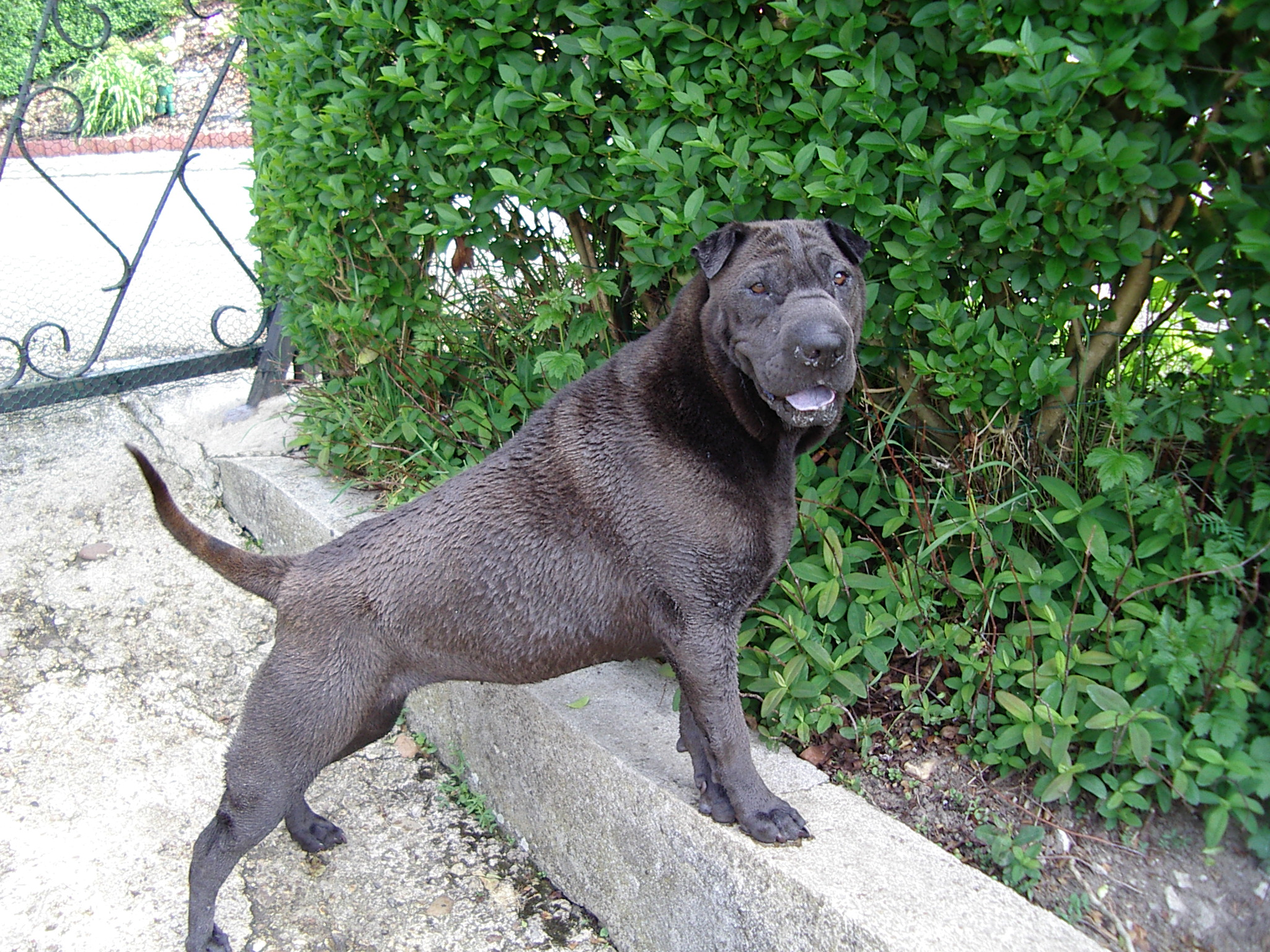 CHIEN SHARPEI